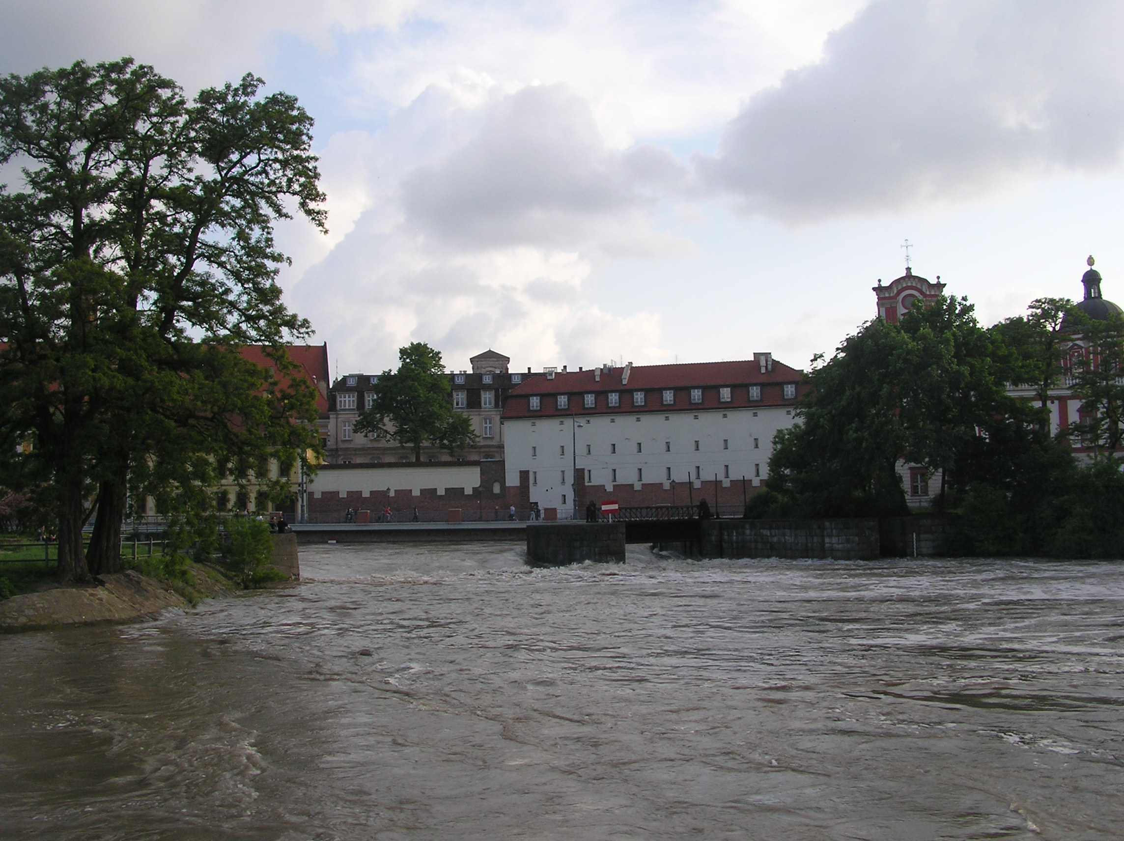 Św. Macieja weir